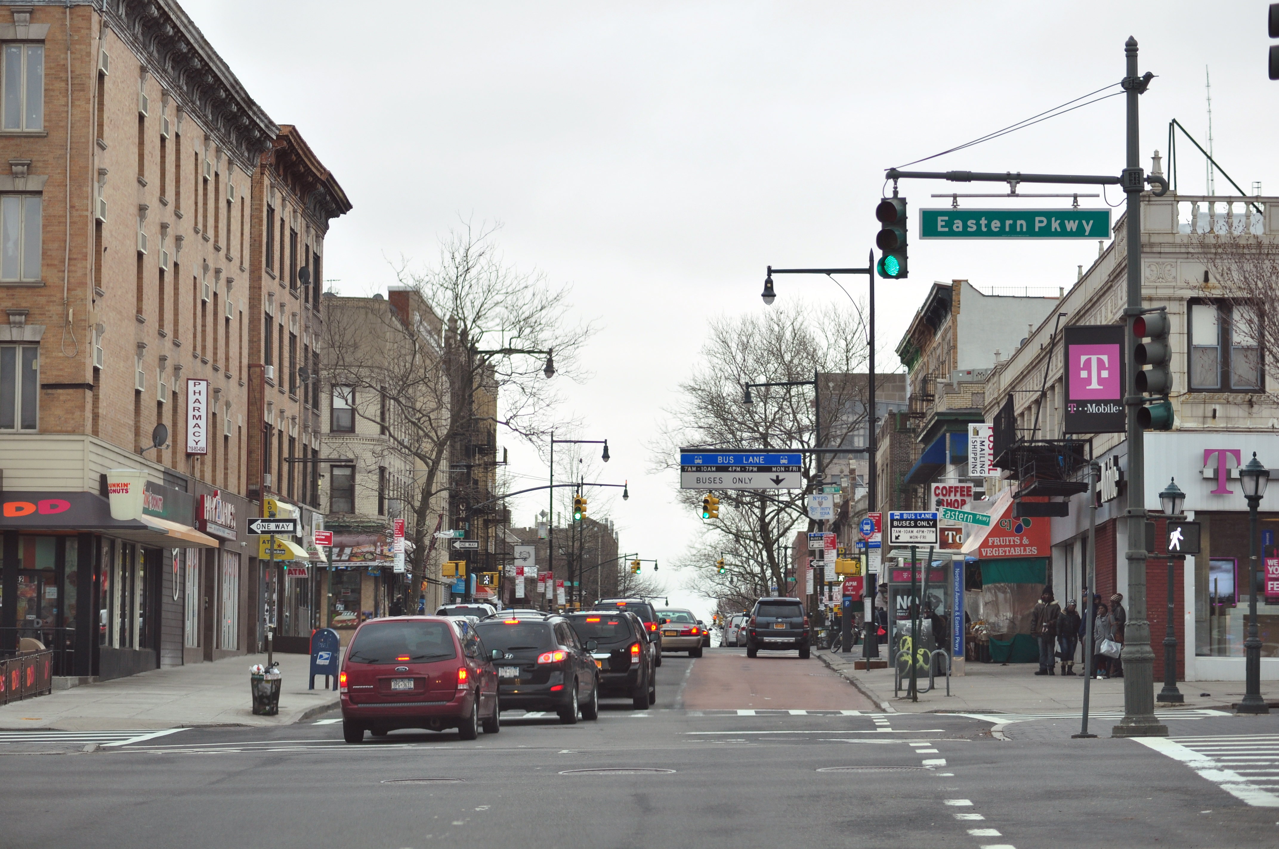 Crown Heights, Brooklyn, NY, USA